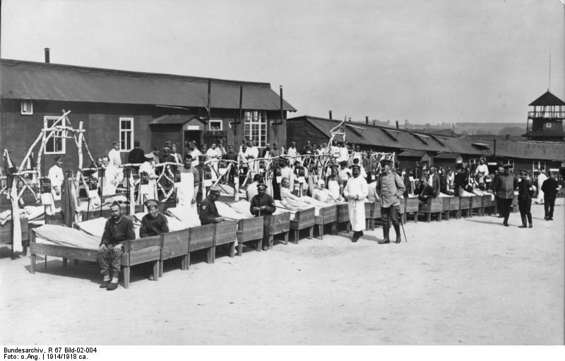 Prisoner of War Camp Crossen - Outside.